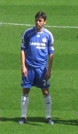 Paulo Ferreira, Portuguese football player.